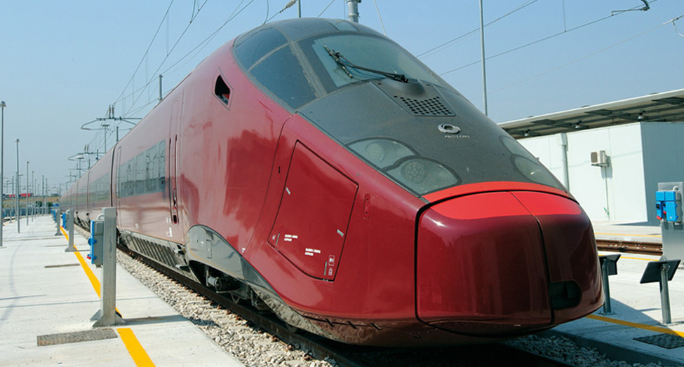 Alstom AGV in red "NTV" colors.